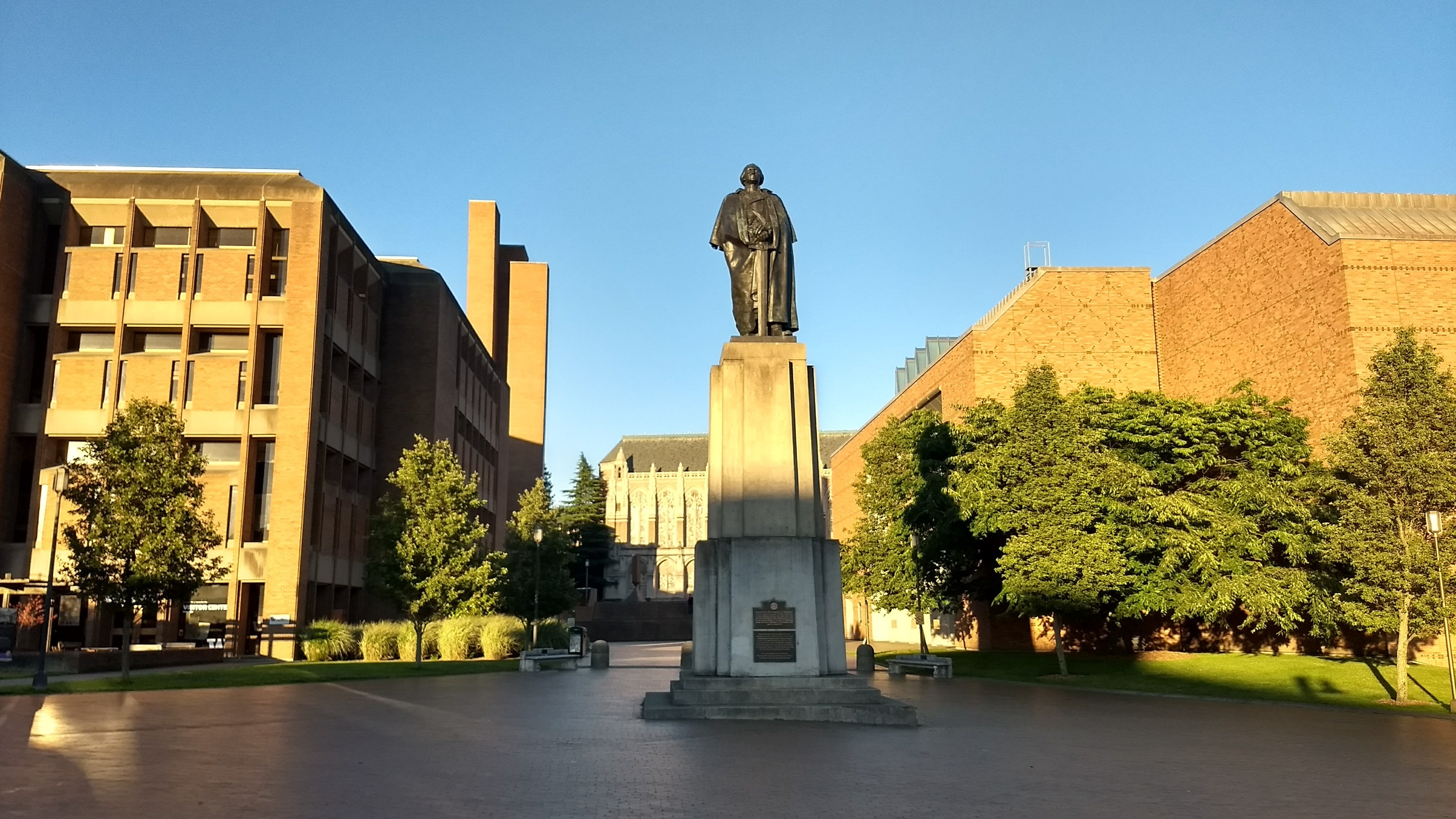 George Washington with view of Red Square in the background